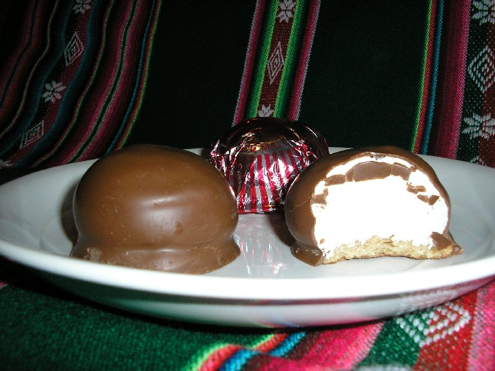 A group of Tunnocks Tea Cakes. Photo taken by User:Grinner